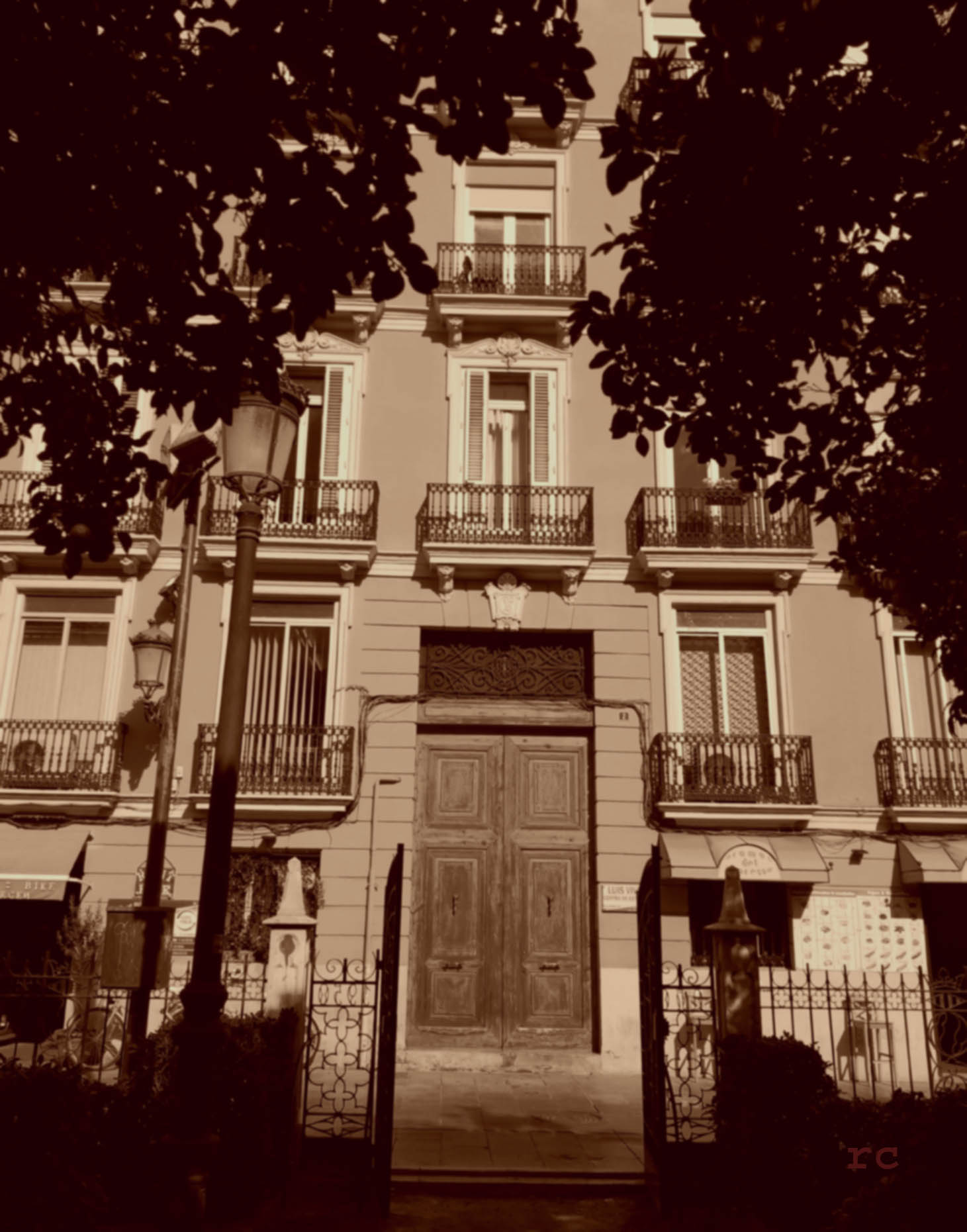 Bailia St. 2. Valencia. Spain